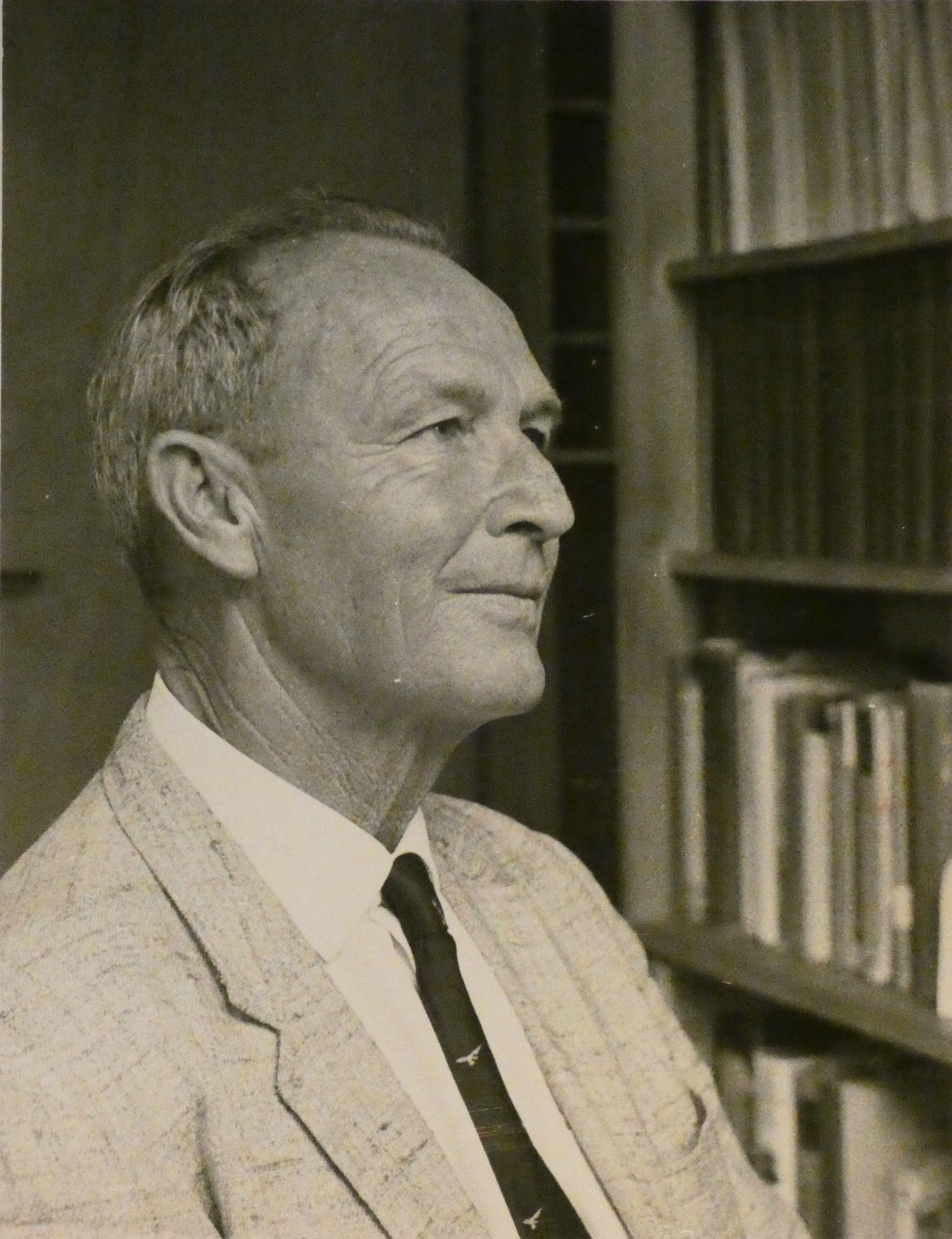 Portrait photograph of John Hemsworth Osborne-Day (25 August 1909 – 24 April 1989 ), a South African marine biologist and invertebrate zoologist